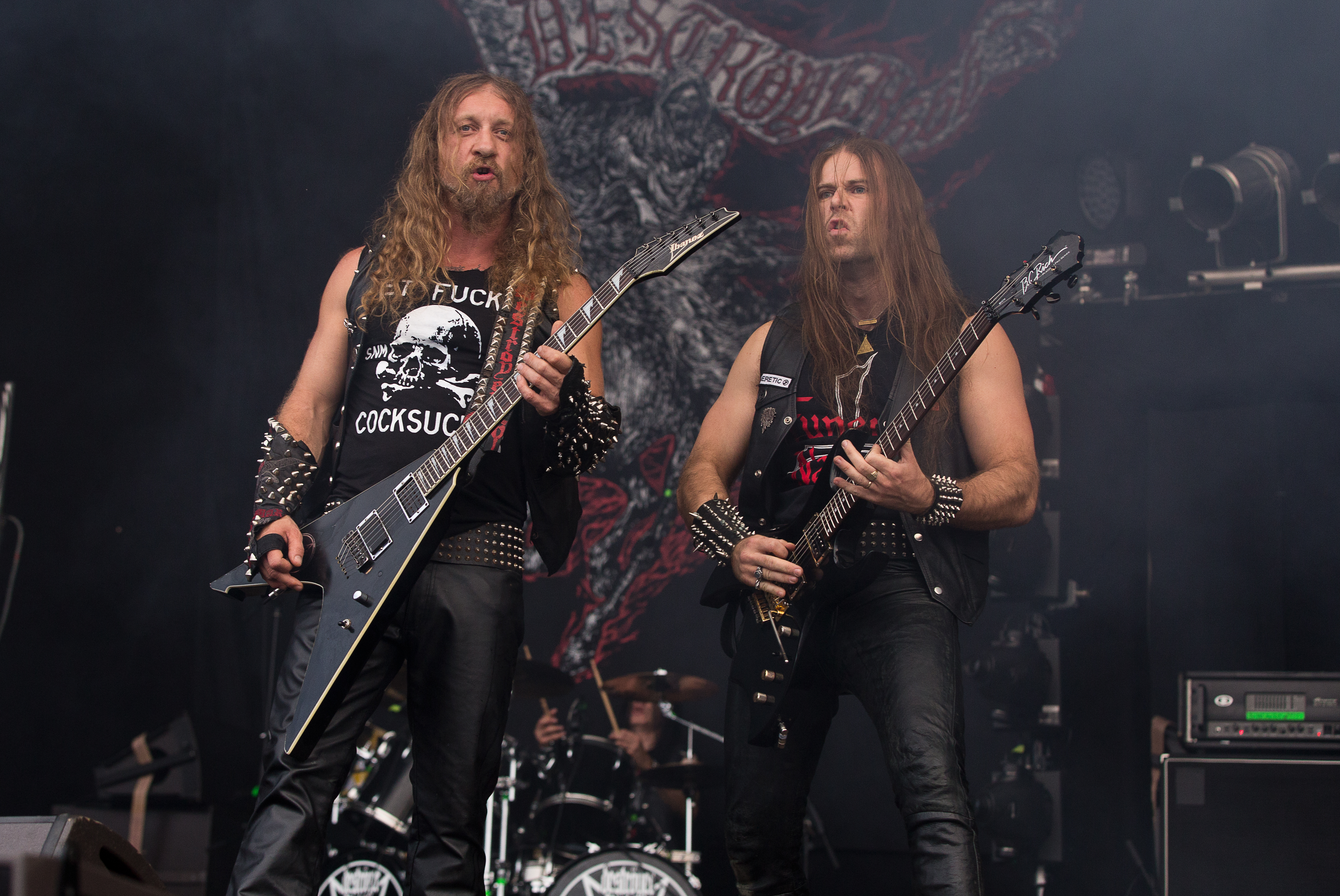 The Australian extreme metal band Deströyer 666 at the Party.San Metal Open Air 2016 in Obermehler-Schlotheim/Germany.